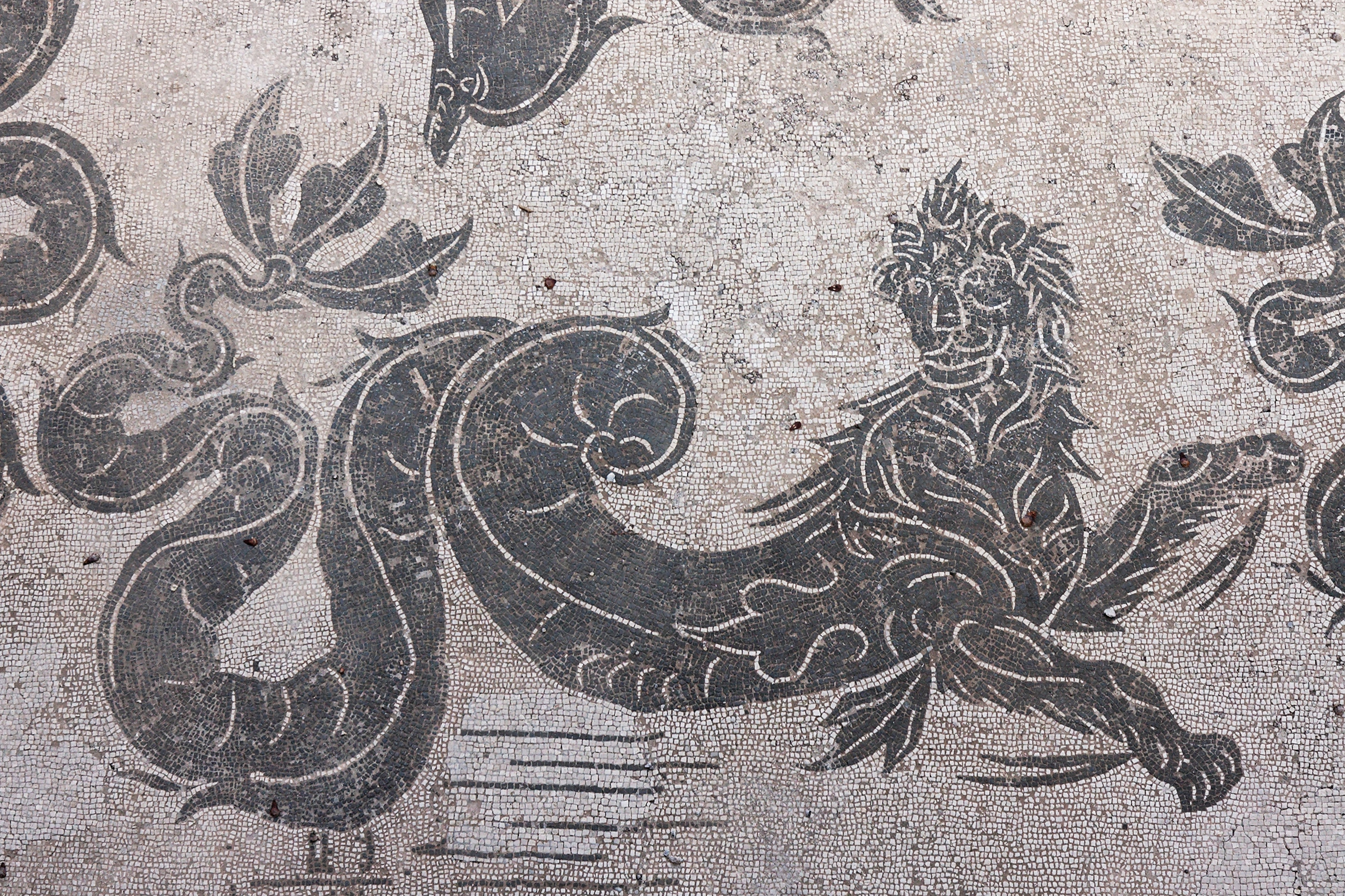 Sea-monster, detail of a mosaic representing Poseidon. Room 4 of the Baths of Neptune, Ostia Antica, Latium, Italy.